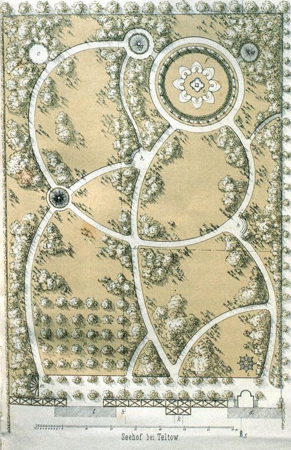 House garden for Max Sabersky in Teltow-Seehof, Germany